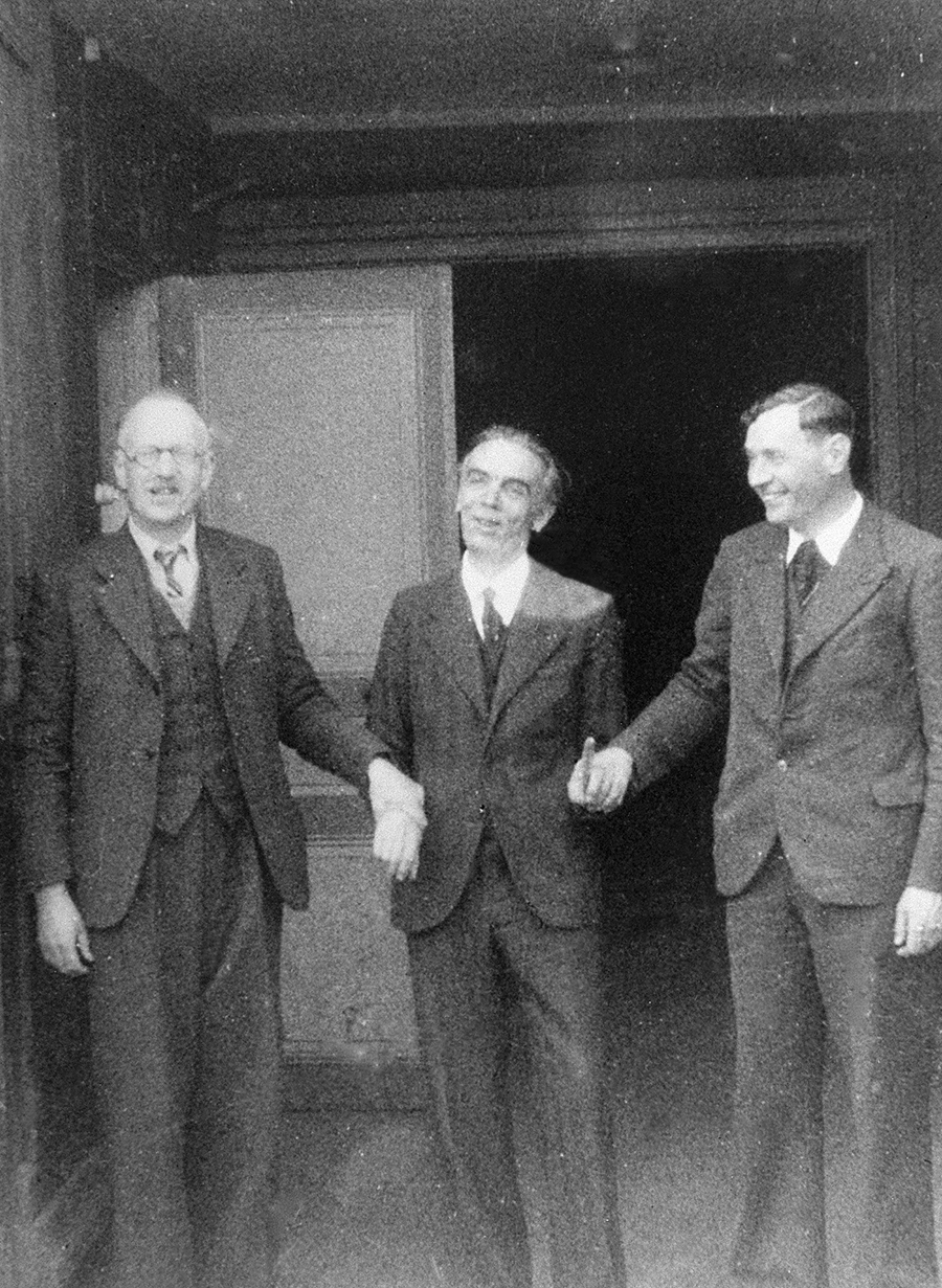 Three Righteous amongst the Nations, after their captivity, in March 1943. From left to right : pastor André Trocmé, educator Roger Darcissac and pastor Edouard Theis.